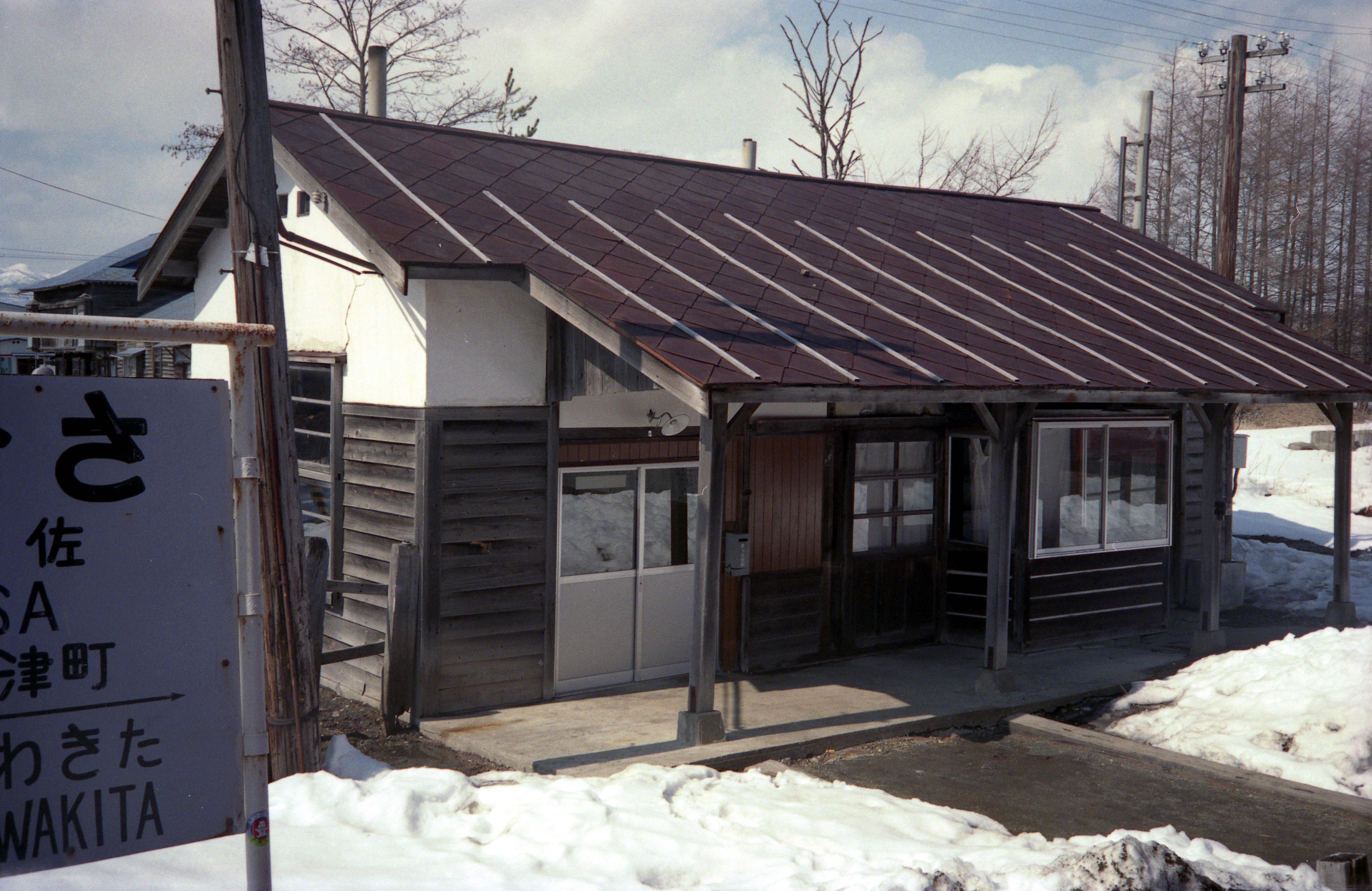 The building of Kamimusa Station,Hokkaido Railway Company Shibetsu Line(before abolished)